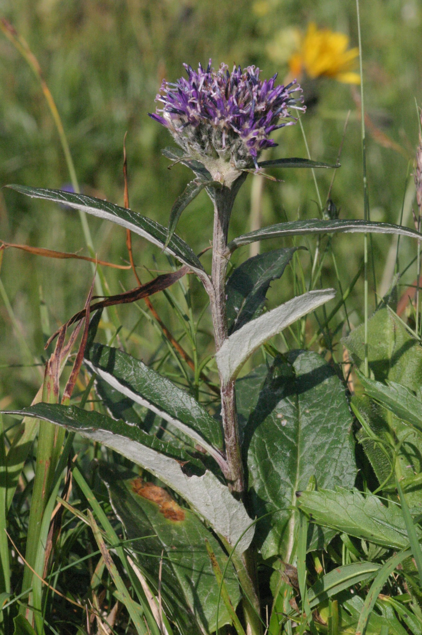 Saussurea discolor